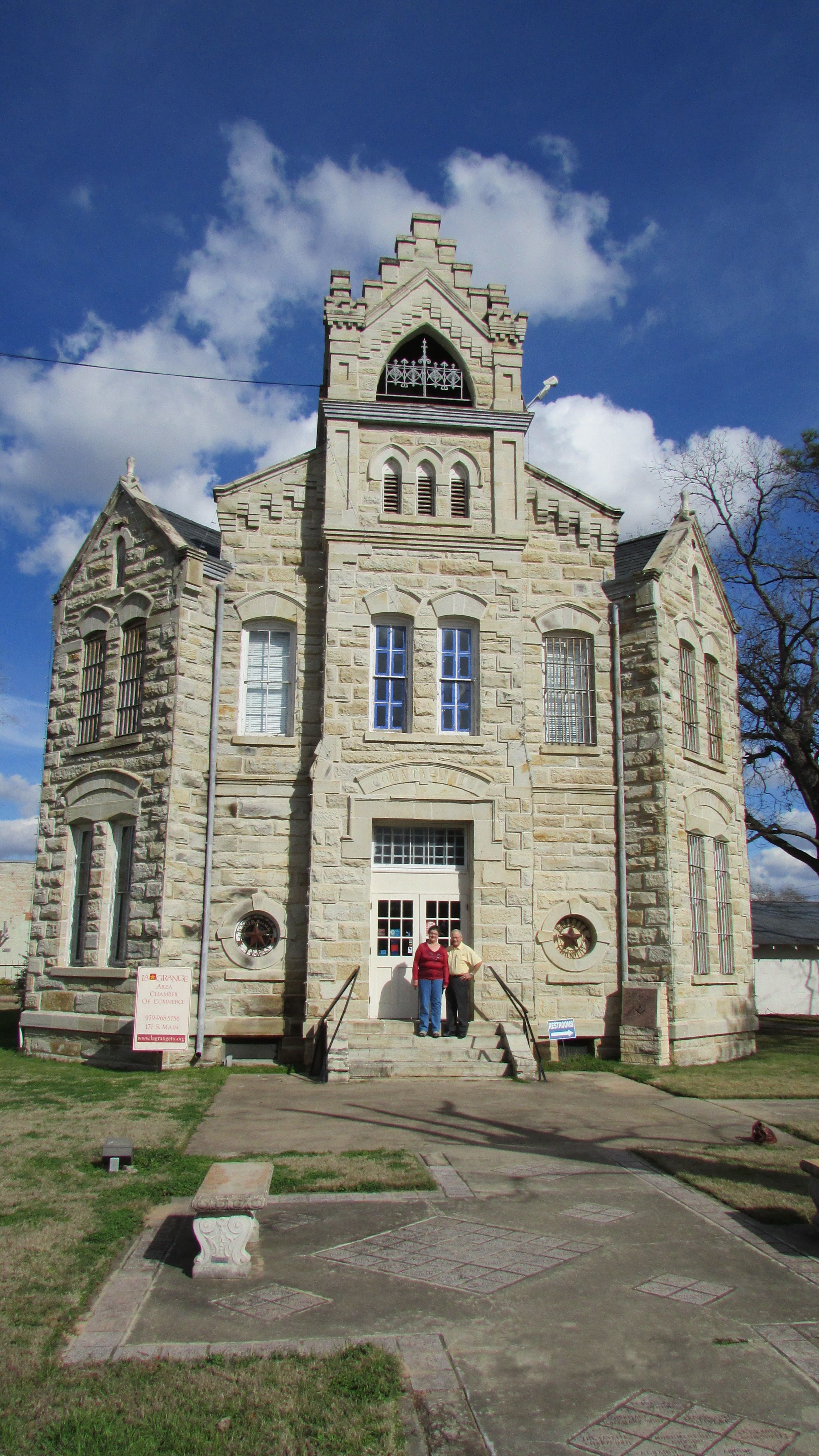 Fayette County Courthouse and Jail, Courthouse Sq. and 104 Main St. La Grange